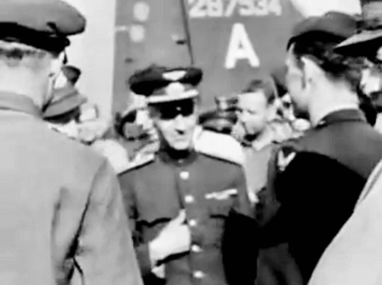 Red Air Force and USAAF officials meeting at Poltava Airfield, Ukraine, 2 June 1944